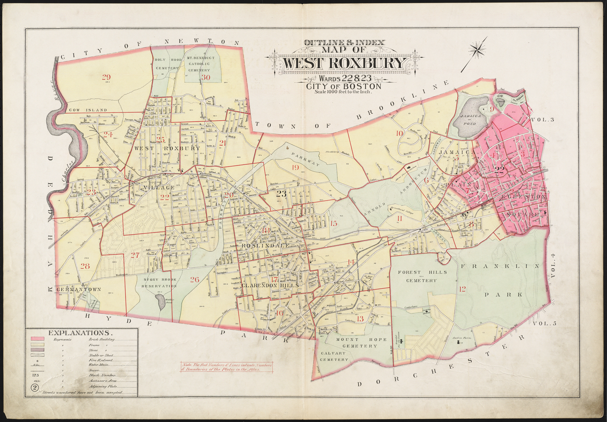 Zoom into this map at . Author: Bromley, George Washington Publisher: G.W. Bromley & Co. Date: 1896 Location: Boston (Mass.), Jamaica Plain (Boston, Mass.), Roslindale (Boston, Mass.), West Roxbury (Boston, Mass.) Dimensions: 51 x 76 cm Scale: Scale 1:12,000 Call Number: G1234.B6 B7 1896